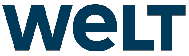 This is a alternative version of the new Logo of the television station "welt", formerly called N24.